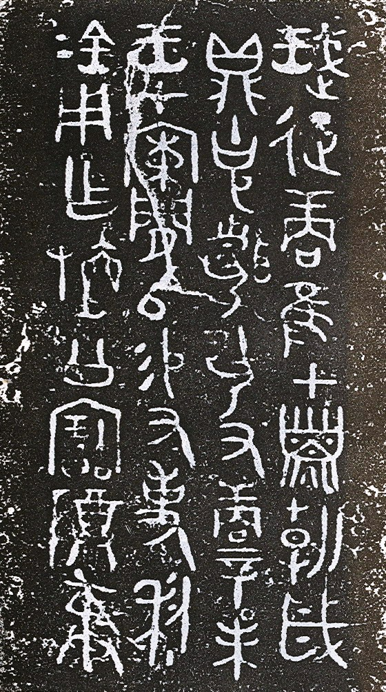 The inscription of Li gui.